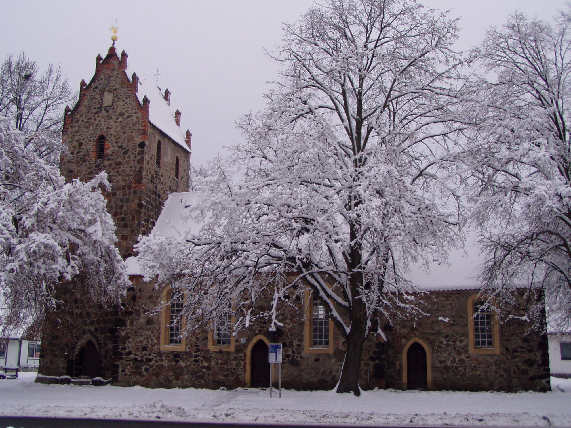 Church Prießen Doberlug-Kirchhain Elbe Elster